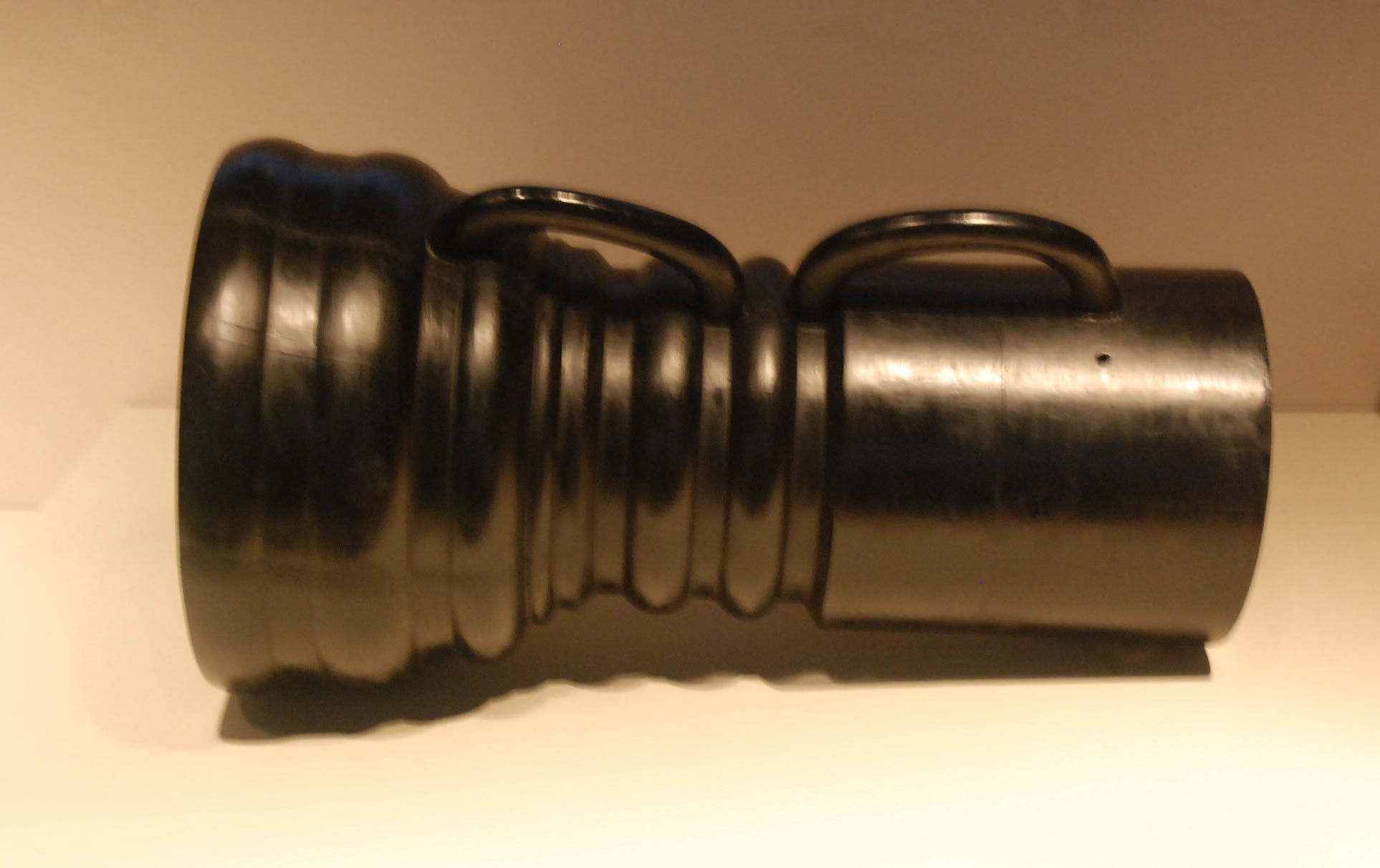 Joongwangu is the middle size Cannon shooting beeguekjinchoenroe(a time-bomb shell) used in 1592 battle against Japanese invasion.